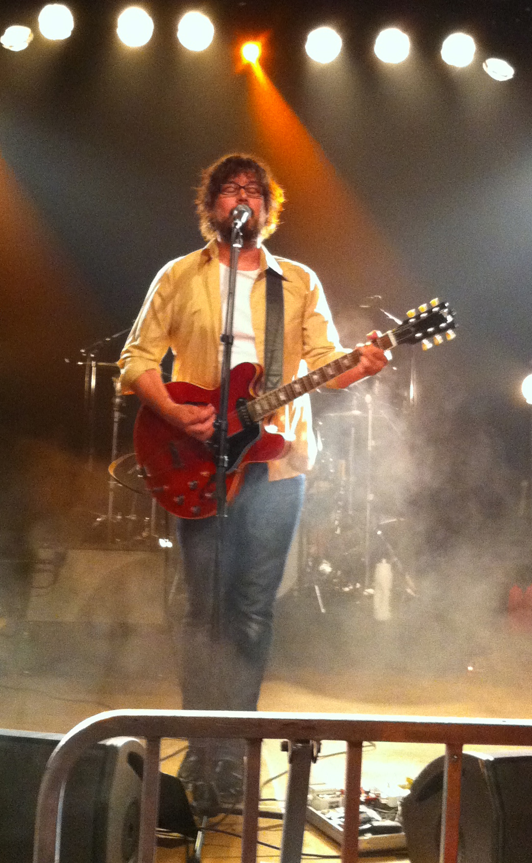 Henrik Oja. Producer and musician.